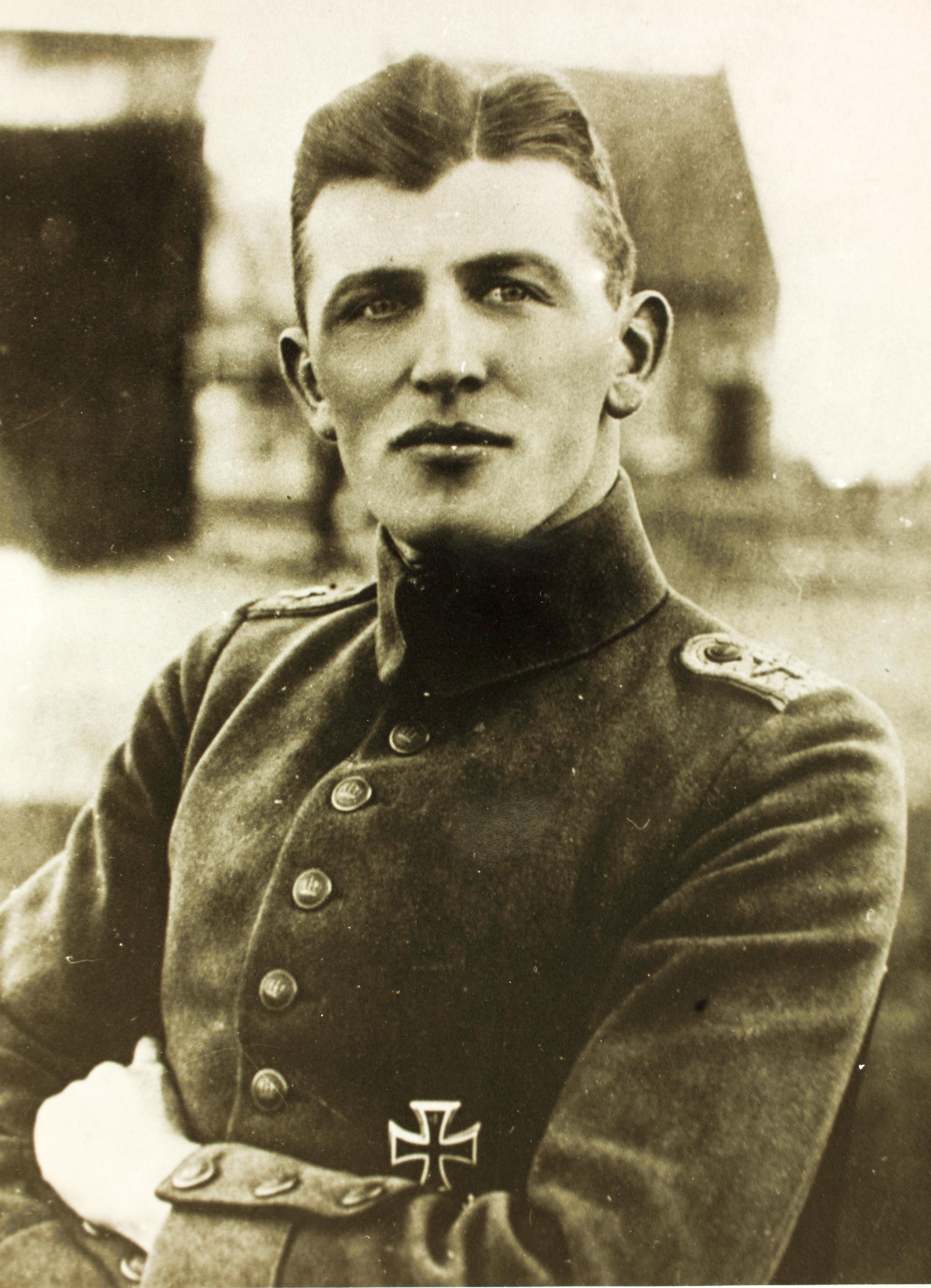 Catalog #: 10_0017316 Title: World War One German Aviator Lt. Heinrich Kroll Date: 1914-1918 Additional Information: World War One German Aviator Lt. Heinrich Kroll Tags: World War One German Aviator Lt. Heinrich Kroll, World War One German Aviator Lt. Heinrich Kroll, 1914-1918 Repository: San Diego Air and Space Museum Archive